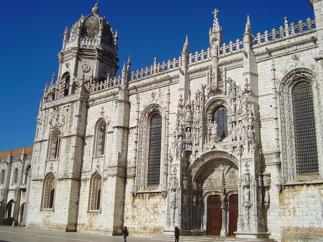 Southern façade of Jerónimos Monastery, Lisbon